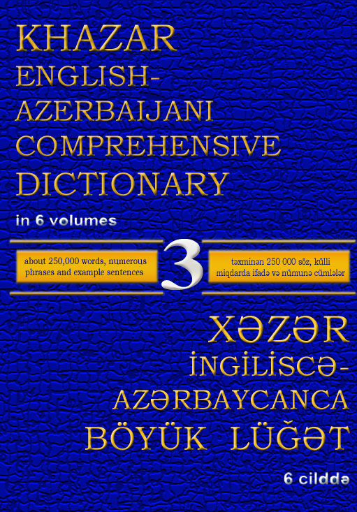 Khazar English-Azerbaijani Comprehensive Dictionary